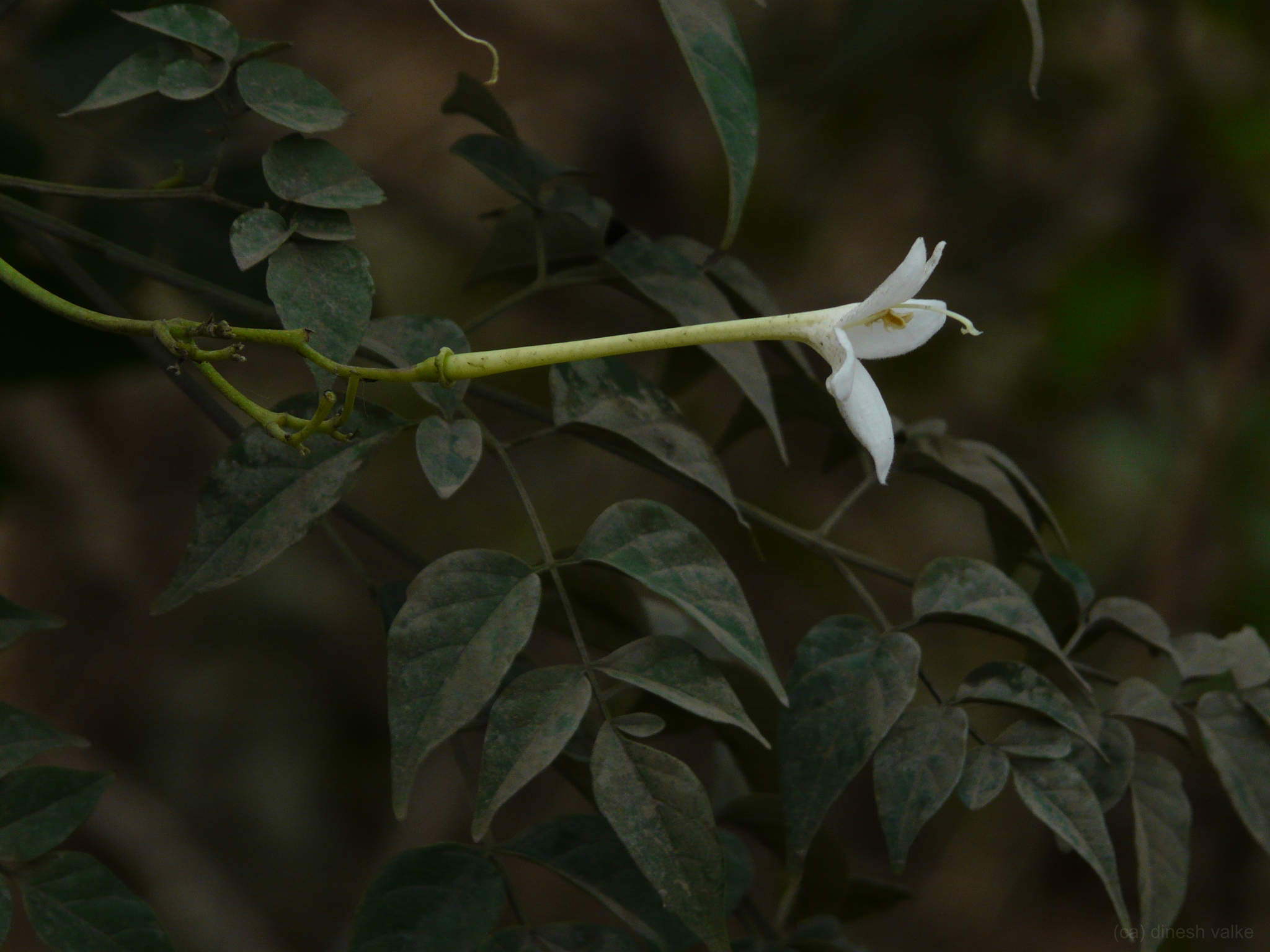 Bignoniaceae (bignonia, or jacaranda family) » Millingtonia hortensis mill-in-TOH-nee-uh -- named for Thomas Millington, an English botanist hor-TEN-sis -- meaning, of or in gardens; cultivated commonly known as: Indian cork tree, tree jasmine • Hindi: नीम चमेली neem chameli • Kannada: ಆಕಾಶ ಮಲ್ಲಿಗೆ akasha mallige, ಬಿರಟುಮರ biratumara • Konkani: आकासनिम्ब akasnimb • Malayalam: കടെസമ് katesam • Marathi: आकाश चमेली akash chameli, बुच buch, कावळ निम्ब kaval nimb • Oriya: ବକେନୀ bakeni, ମଚ୍ ମଚ୍ mach-mach • Tamil: கட் மல்லீ kat-malli • Telugu: కవుకీ kavuki Native to: Myanmar References: Flowers of India • Top Tropicals